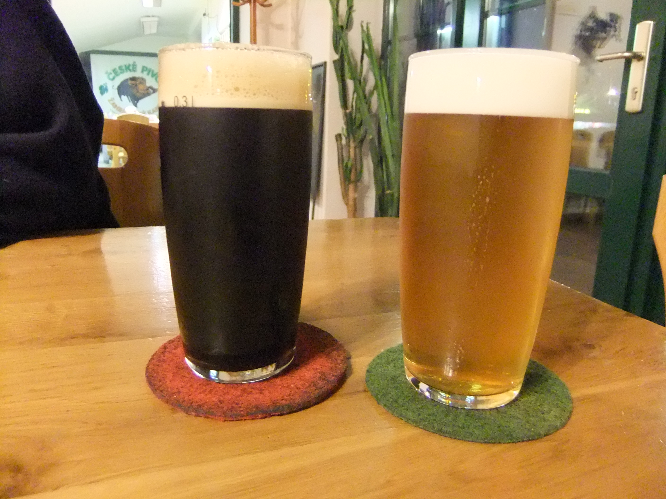 Two beers from the Czech minibrewery Žamberecký kanec""